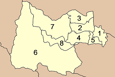 Map of the province Uthai Thani with the districts (Amphoe, อำเภอ) numbered. Mueang Uthai Thani (อำเภอเมืองอุทัยธานี) Thap Than (อำเภอทัพทัน) Sawang Arom (อำเภอสว่างอารมณ์) Nong Chang (อำเภอหนองฉาง) Nong Khayang (อำเภอหนองขาหย่าง) Ban Rai (อำเภอบ้านไร่) Lan Sak (อำเภอลานสัก) Huai Khot (อำเภอห้วยคต)